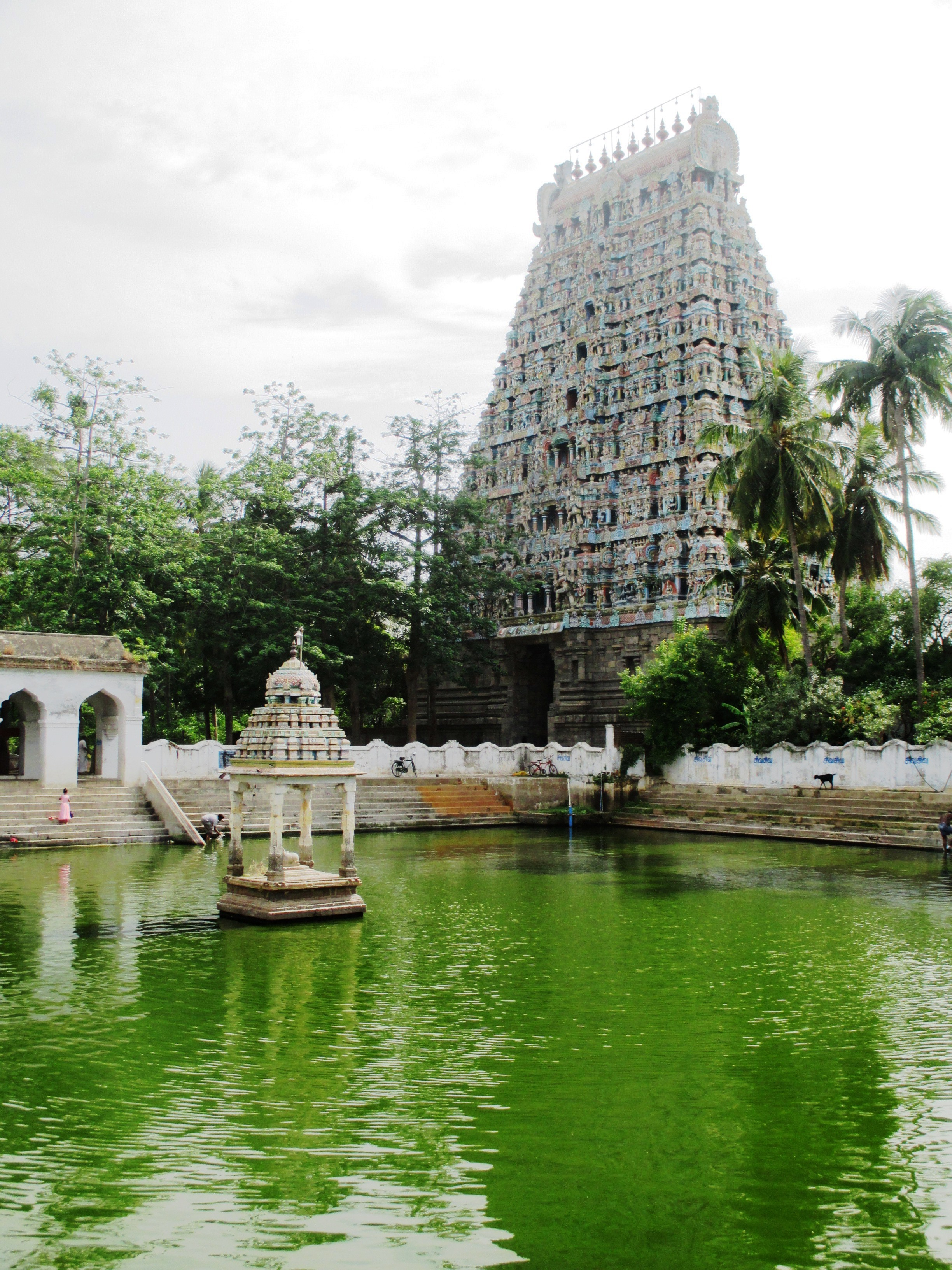 Mayuranathaswami temple